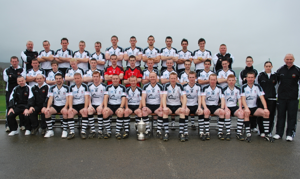 kilcoo county championship winning senior panel 2009